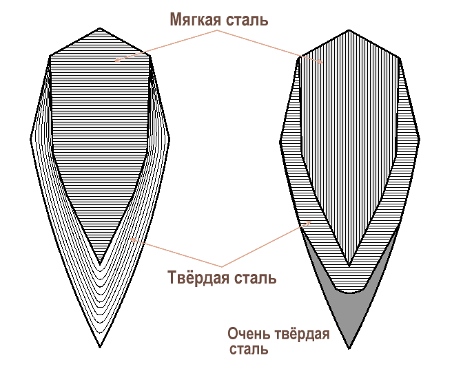 Cross section of japanese sword. Different structures of steel layers.